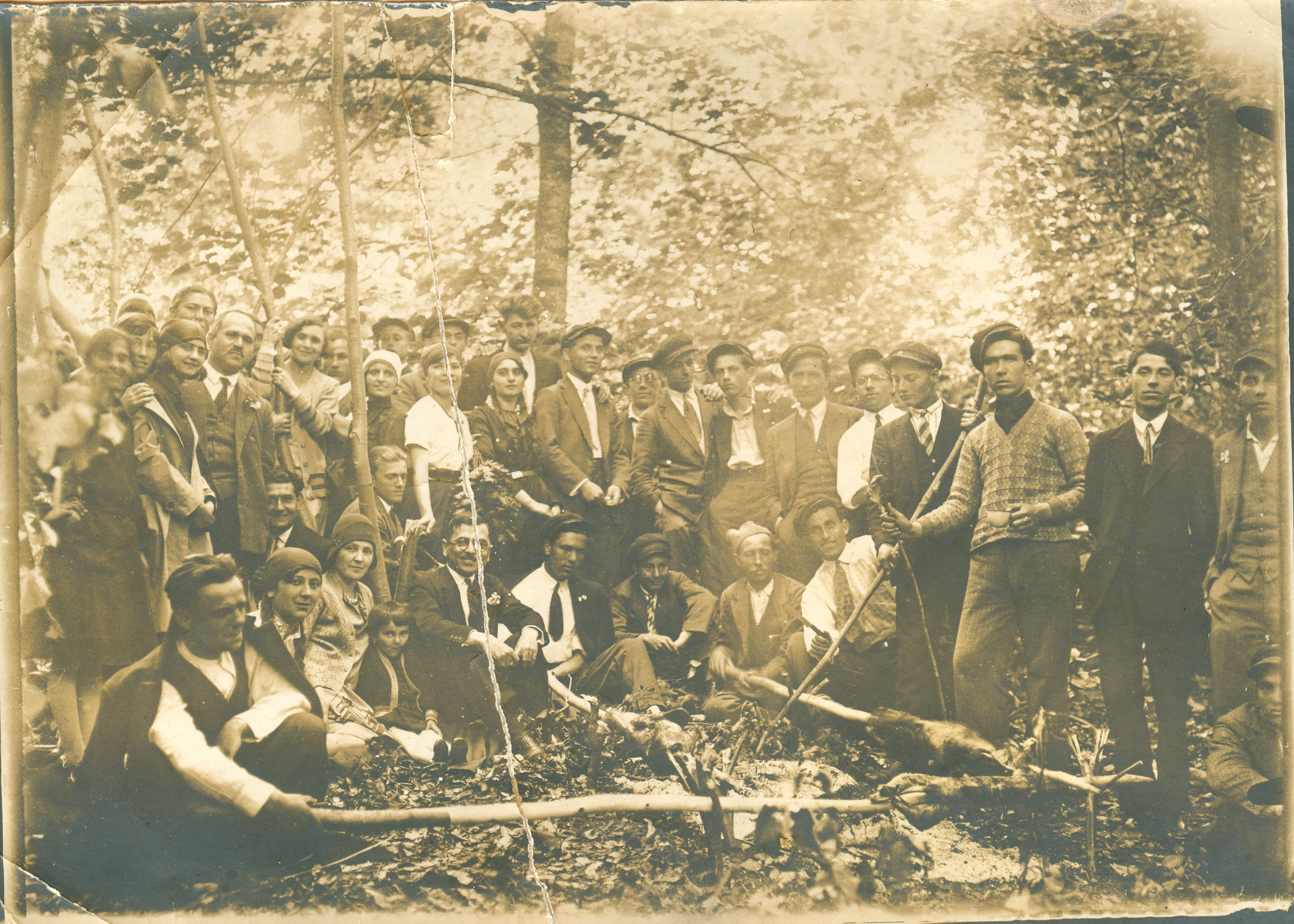 Students of Teacher's School from Negotin on a picnic Srpski (latinica): Učenici Učiteljske škole u Negotina na Đurđevdanskom uranku